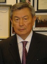 Cropped version of former Kazakhstani Senate Chairman Nurtai Abykayev with Senator Richard Lugar